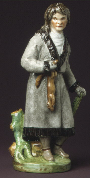 Russian, St. Petersburg; Figure; Ceramics-Porcelain